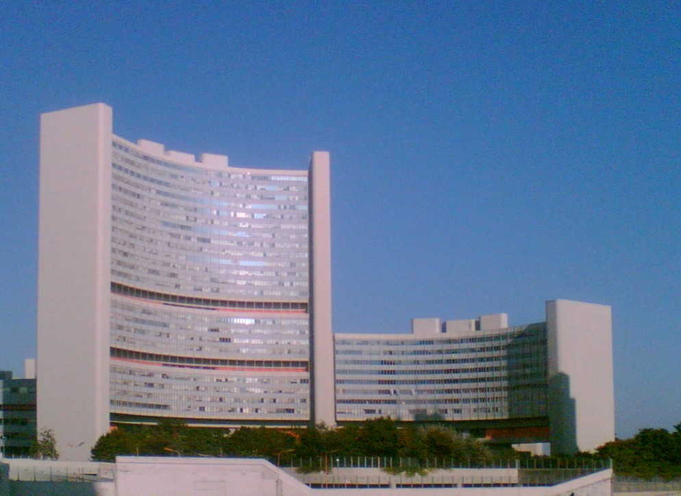 Austria, Vienna, Vienna International Centre